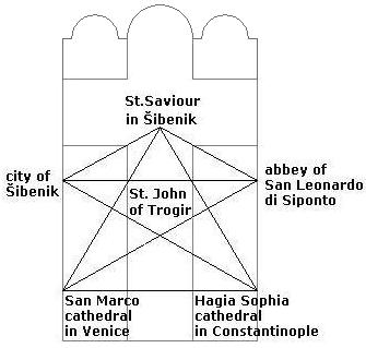 artistic trinities of the cathedral in Sibenik